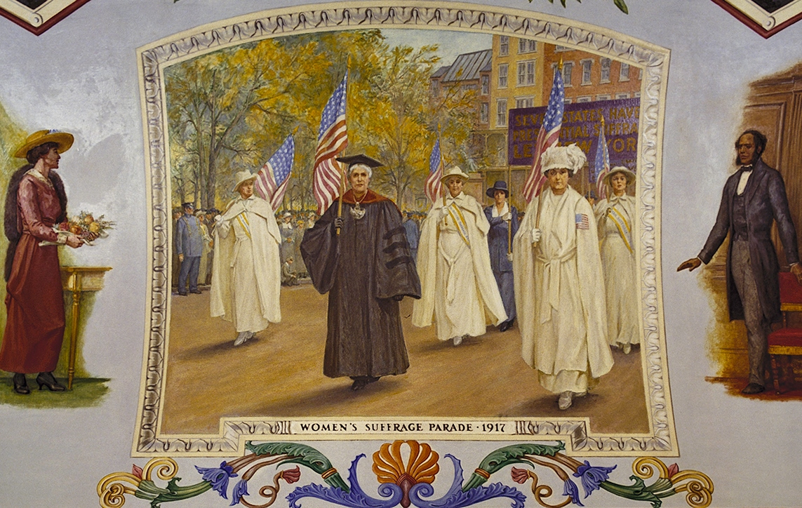 This mural by Allyn Cox at the U.S. Capital building depicts a 1917 suffrage parade in New York. The parade is led Anna Howard Shaw (in black cap and gown) and Carrie Chapman Catt, president of the National American Woman Suffrage Association. Observing at the far left is Jeanette Rankin of Montana, the first woman elected to the House of Representatives, and at the far right, Joseph H. Rainey of South Carolina, the first African American elected to the House of Representatives.